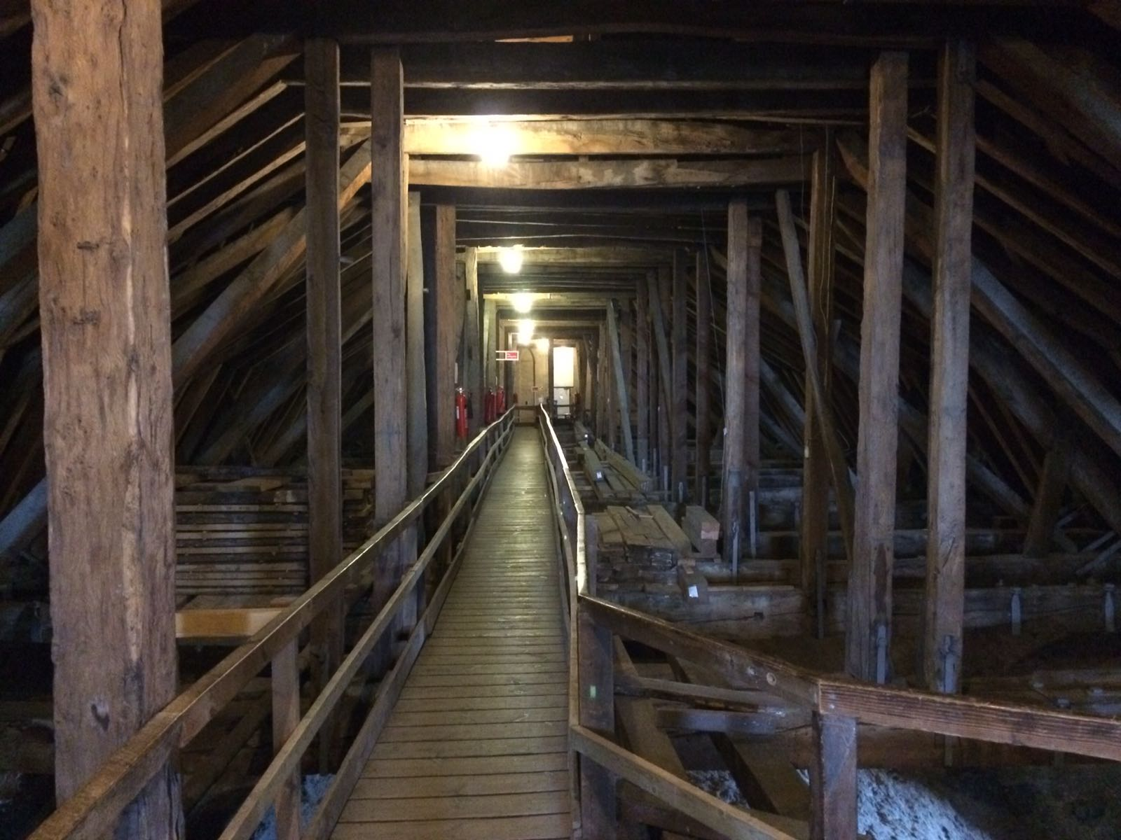 Nave Roof space Lincoln Cathedral